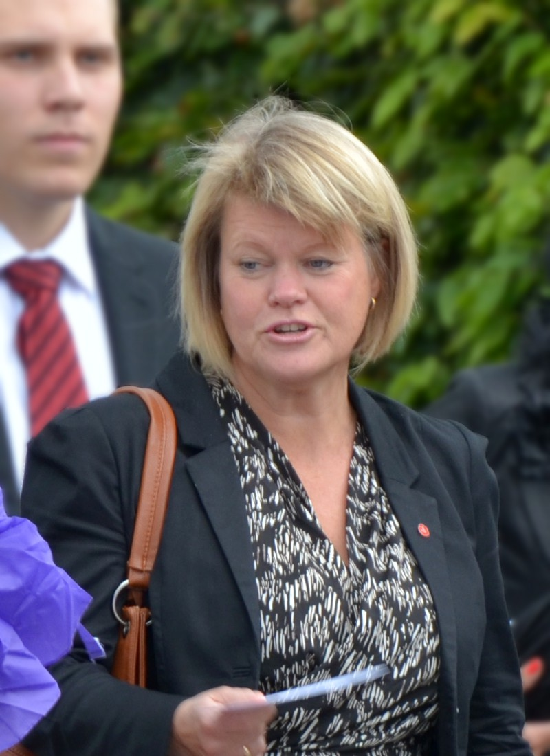 Ulla Andersson, member of the Riksdag for the Left Party.